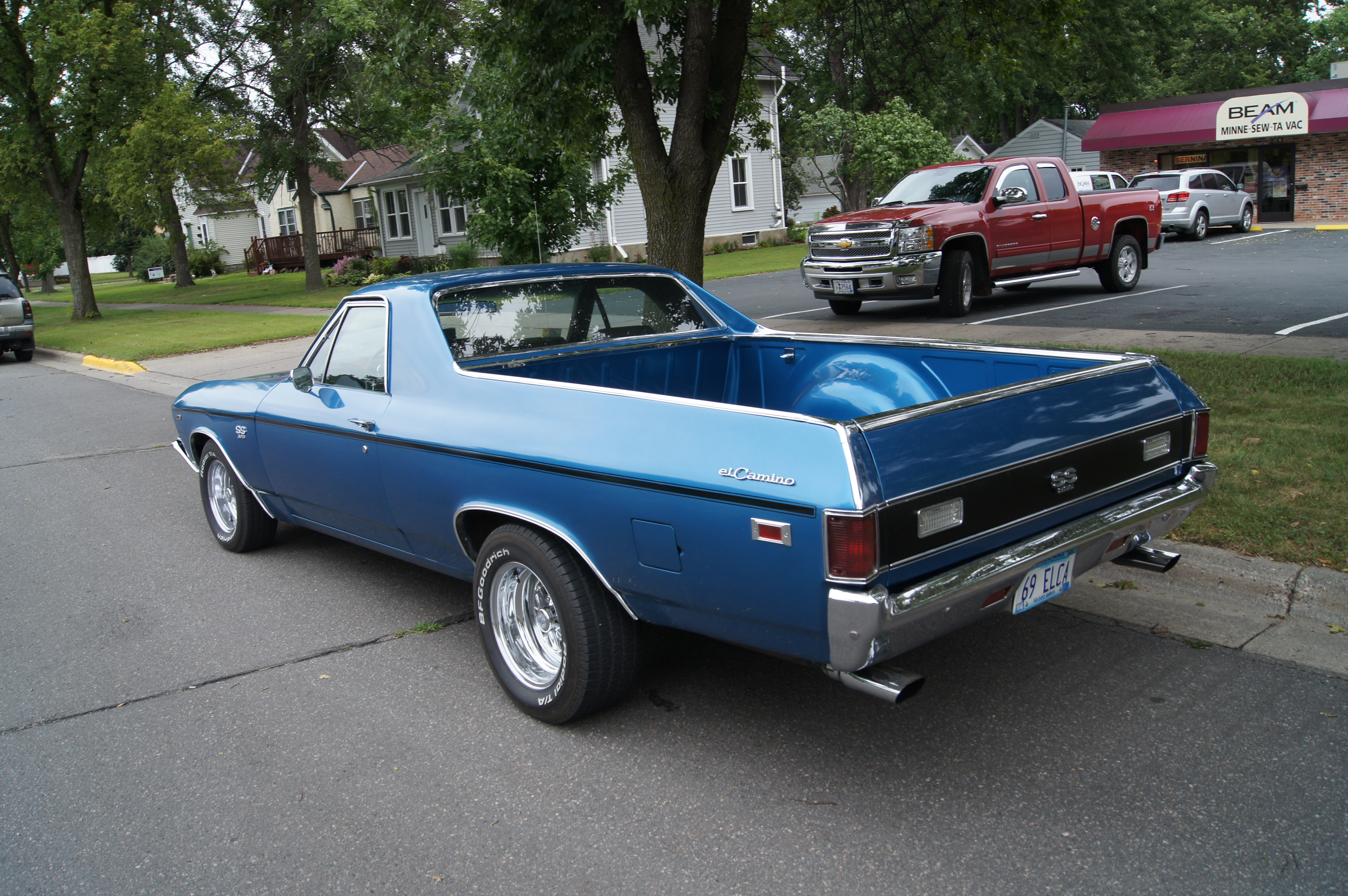 Willmar Car Club August Car Buffs' Breakfast American Legion #96 Hutchinson Minnesota